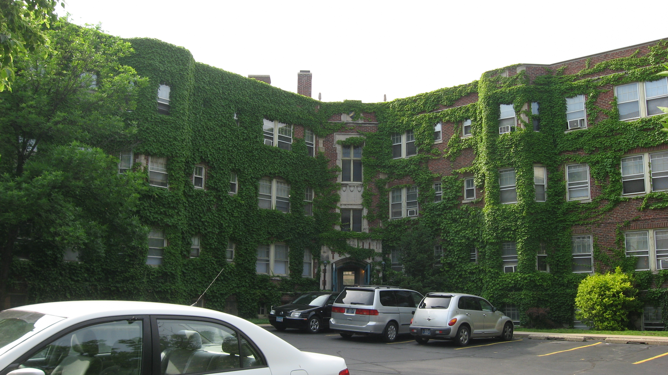 Front of The Varsity, located at 101 Andrew Place in West Lafayette, Indiana, United States. Built in 1928, it is listed on the National Register of Historic Places.